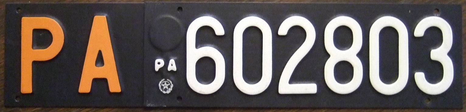 Two part plate,the PA orange on black Palermo tab is added to the plate with the white on black numbers.